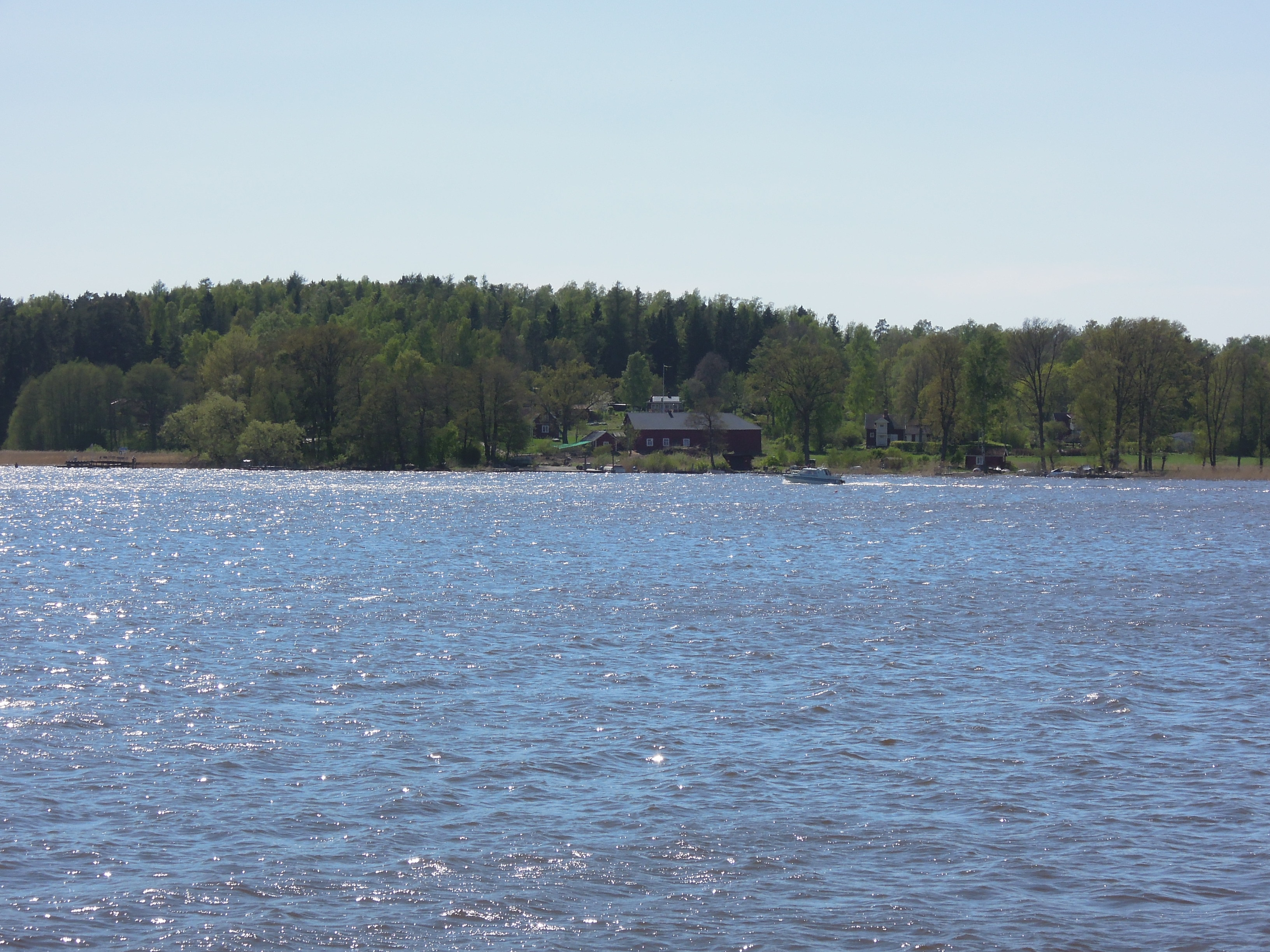 The island of Almö-Lindö, close to Björnön near Västerås, Sweden.